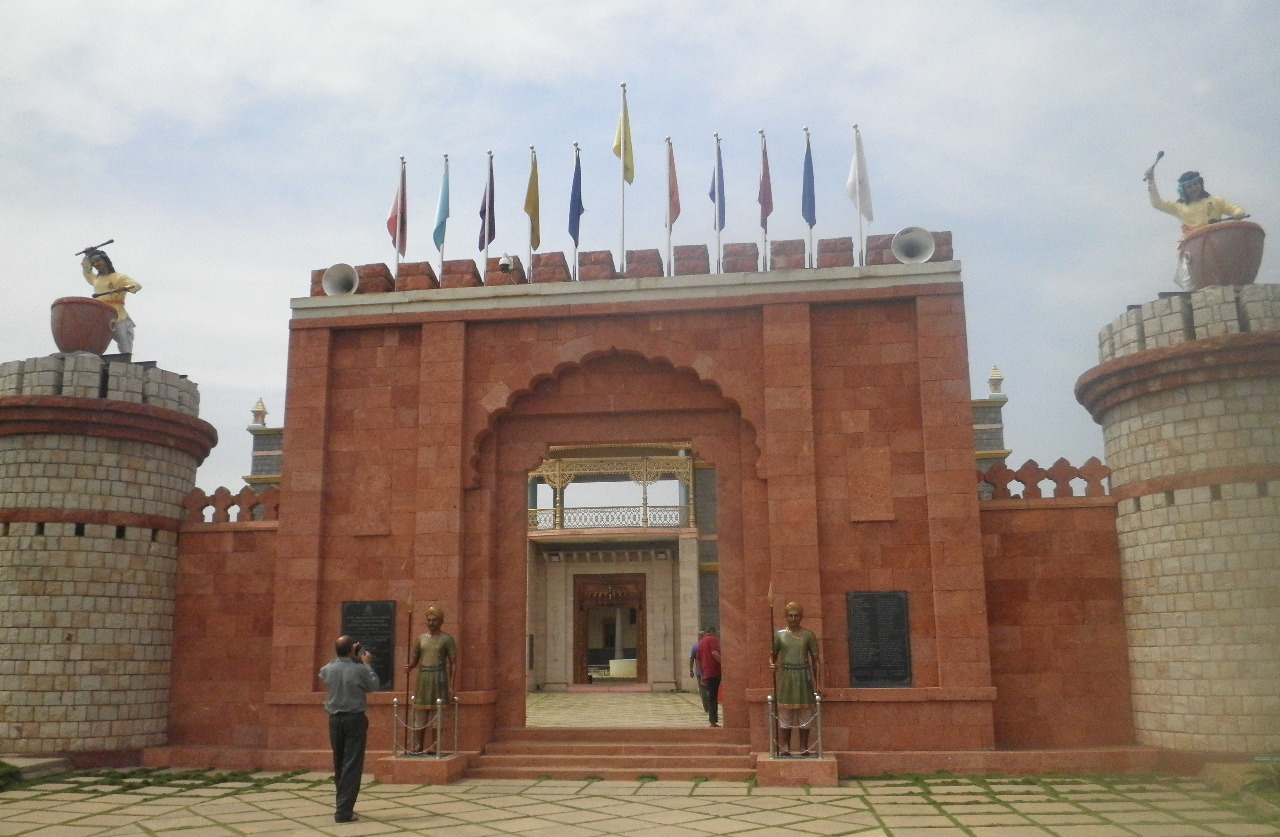 Kaginele Development Authority, Haveri, India